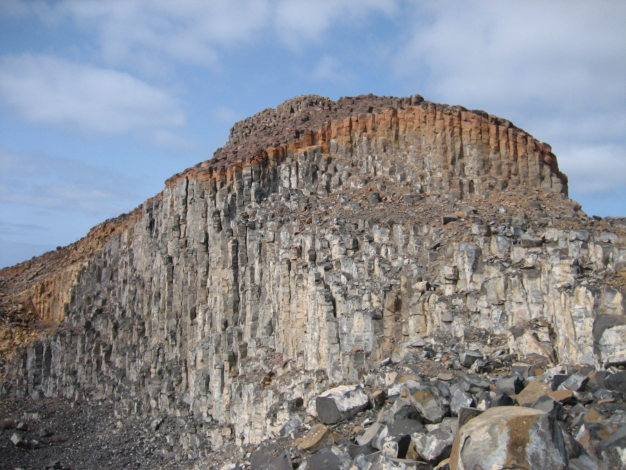 Columnar basalt formation of Morrinho de Açúcar, a former volcanic diatreme on Sal, Cape Verde